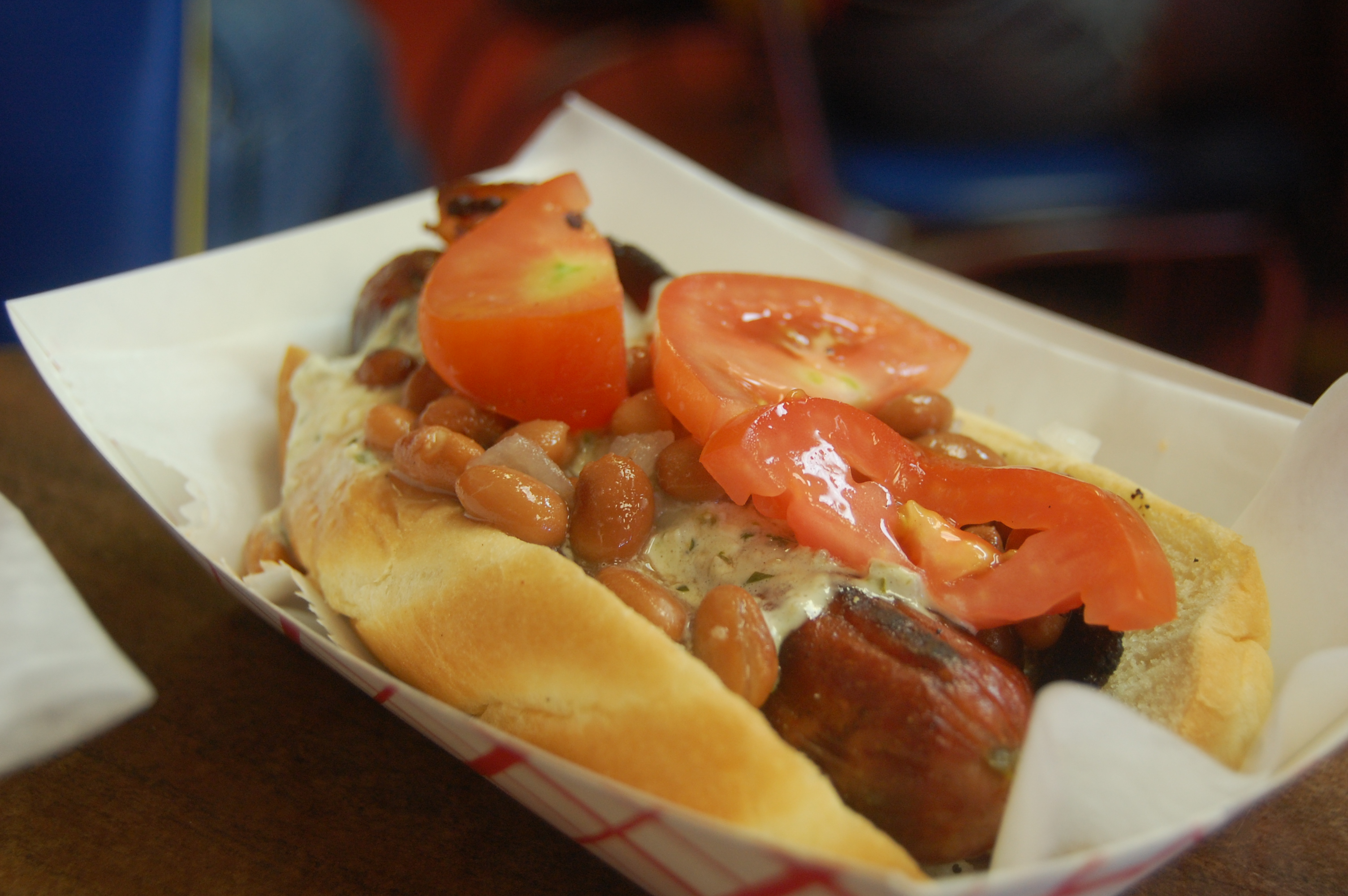 Sonoran hot dog